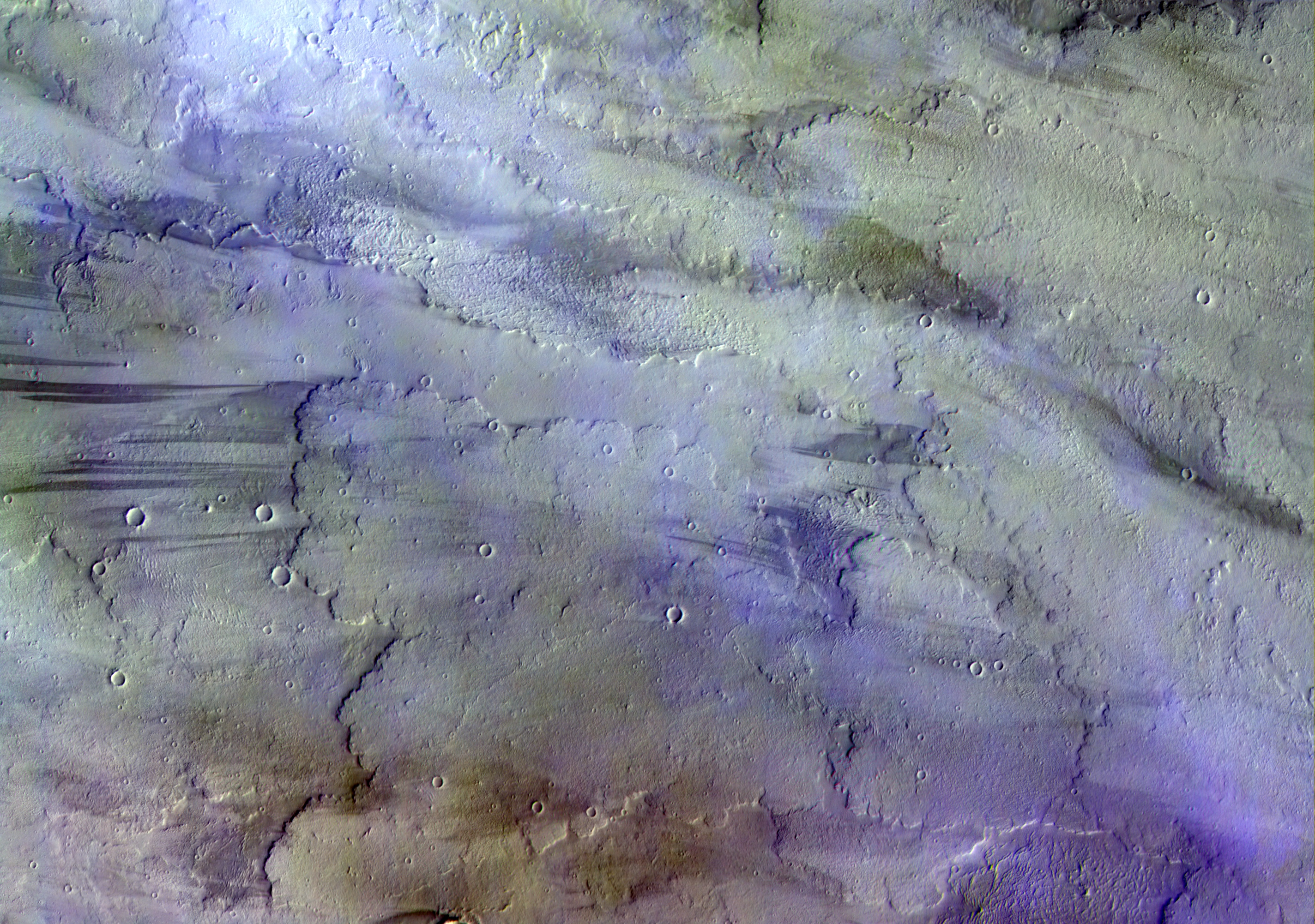 Diffuse, water-ice clouds, a hazy sky and a light breeze. Such might have read aweather forecastfor the Tharsis volcanic region on Mars on 22 November 2016, when this image was taken by the ExoMars Trace Gas Orbiter. Clouds, most likely of water-ice, and atmospheric haze in the sky are coloured blue/white in this image. Below, 630 km west of the volcano Arsia Mons, the southernmost of the Tharsis volcanoes, outlines of ancient lava flows dominate the surface. The dark streaks are due to the action of wind on the dark-coloured basaltic sands, while redder patches are wind blown dust. A handful of small impact craters can also be seen. The Trace Gas Orbiter, a joint effort between ESA and Roscosmos, arrived at Mars on 19 October last year. Since March it has been repeatedly surfing in and out of the atmosphere, generating a tiny amount of drag that will steadily pull it into a near-circular 400 km altitude orbit. It is expected to begin its full science operational phase from this orbit in early 2018. Prior to this ‘aerobraking’ phase,several test periodswere assigned to check the four science instrument suites from orbit and to refine data processing and calibration techniques. The false-colour composite shown here was made from images taken with the Colour and Stereo Surface Imaging System, CaSSIS, in the near-infrared, red and blue channels. The image is centred at 131°W / 8.5°S. The ground resolution is 20.35 m/pixel, and the image is about 58 km across. At the time the image was taken, the altitude was 1791 km, yielding a ground track speed of 1.953 km/s.